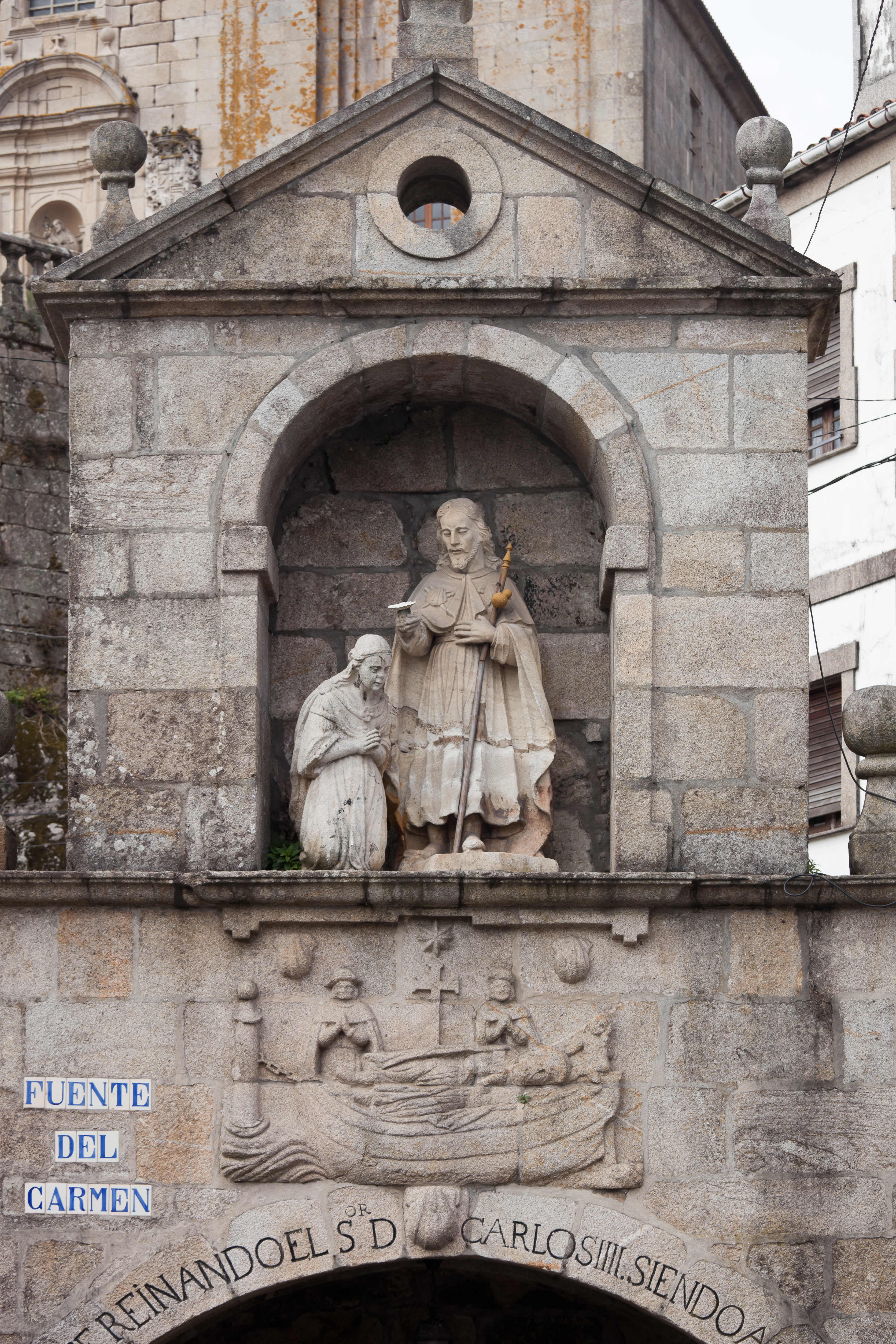 Fountain of the O Carme bridge, Padrón, Galicia, Spain